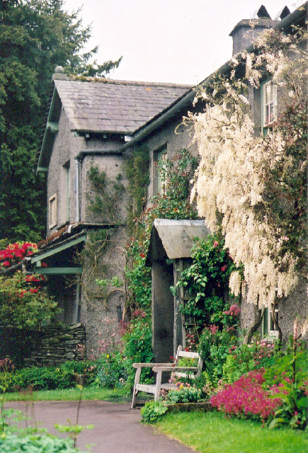 Hill Top Farm, Near Sawrey, Cumbria. Home of children's author, Beatrix Potter. As requested in her will, the interior has been "left as if she had just gone out to the post": a fire burning in the hearth, cups and saucers on the table ready for a visitor!